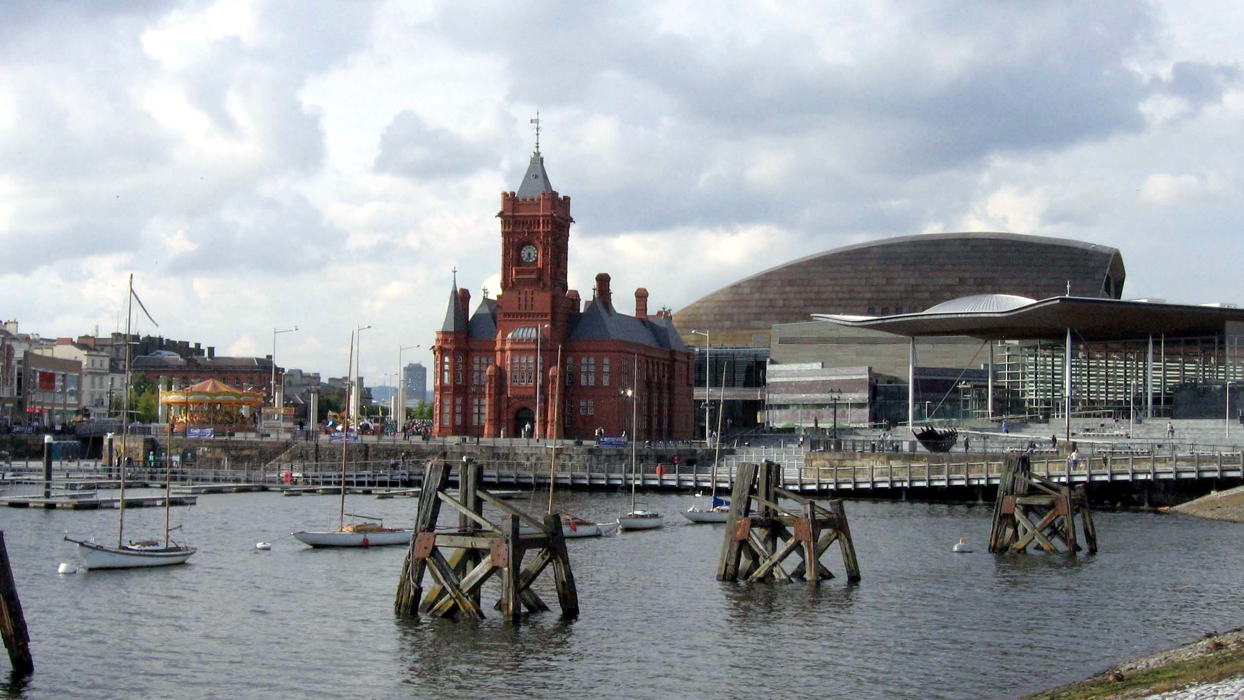 Cardiff Bay with the Pierhead Building in the middle, Cardiff, Wales